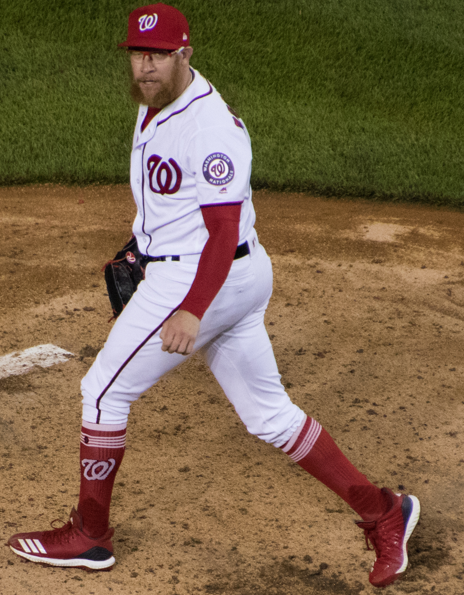 Sean Doolittle